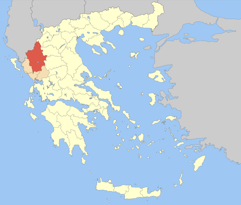 Locator map of Ioannina prefecture (Νομός Ιωαννίνων) in Greece